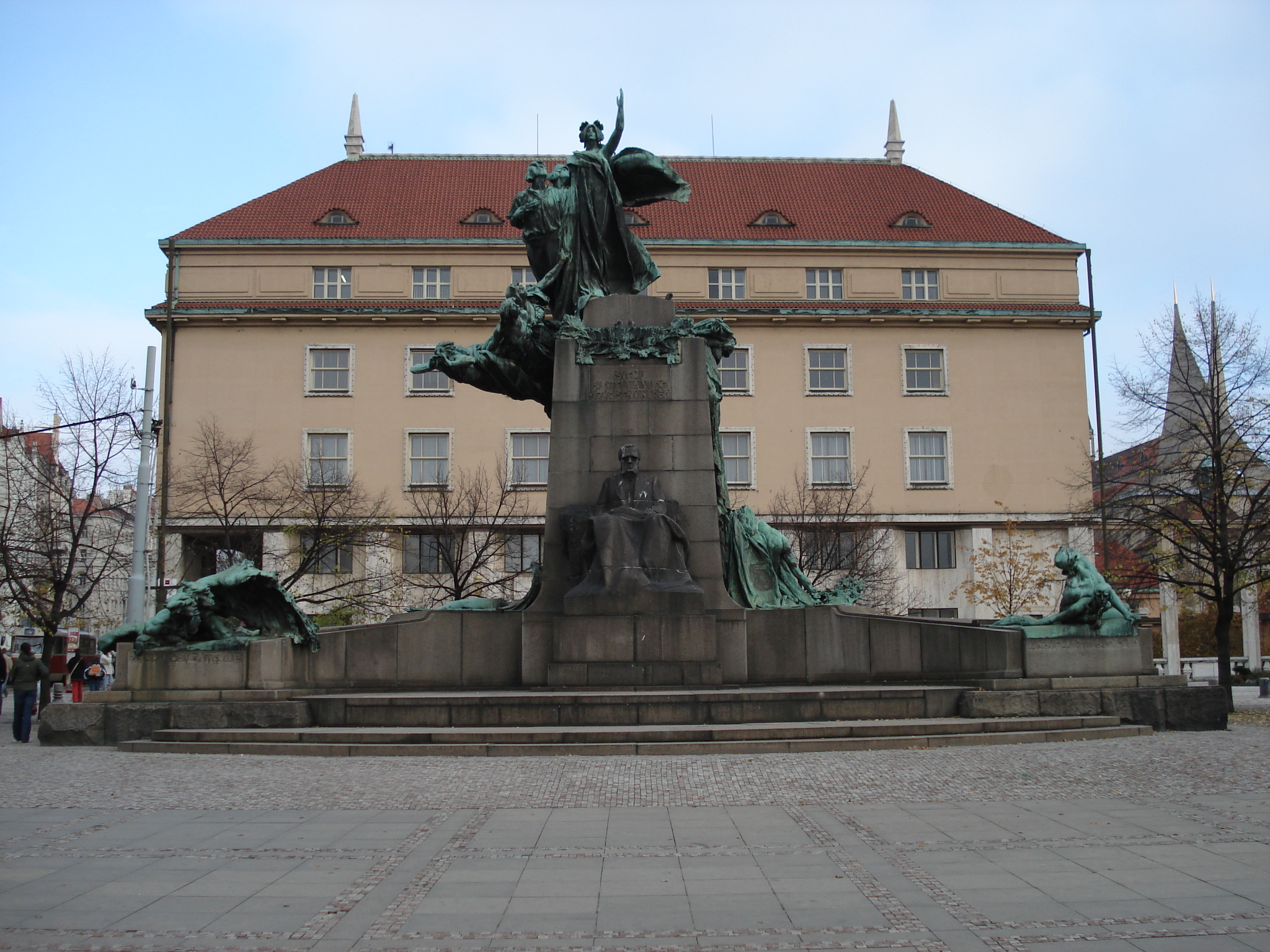 Monument to František Palacký in Palackého naměstí, Prague.